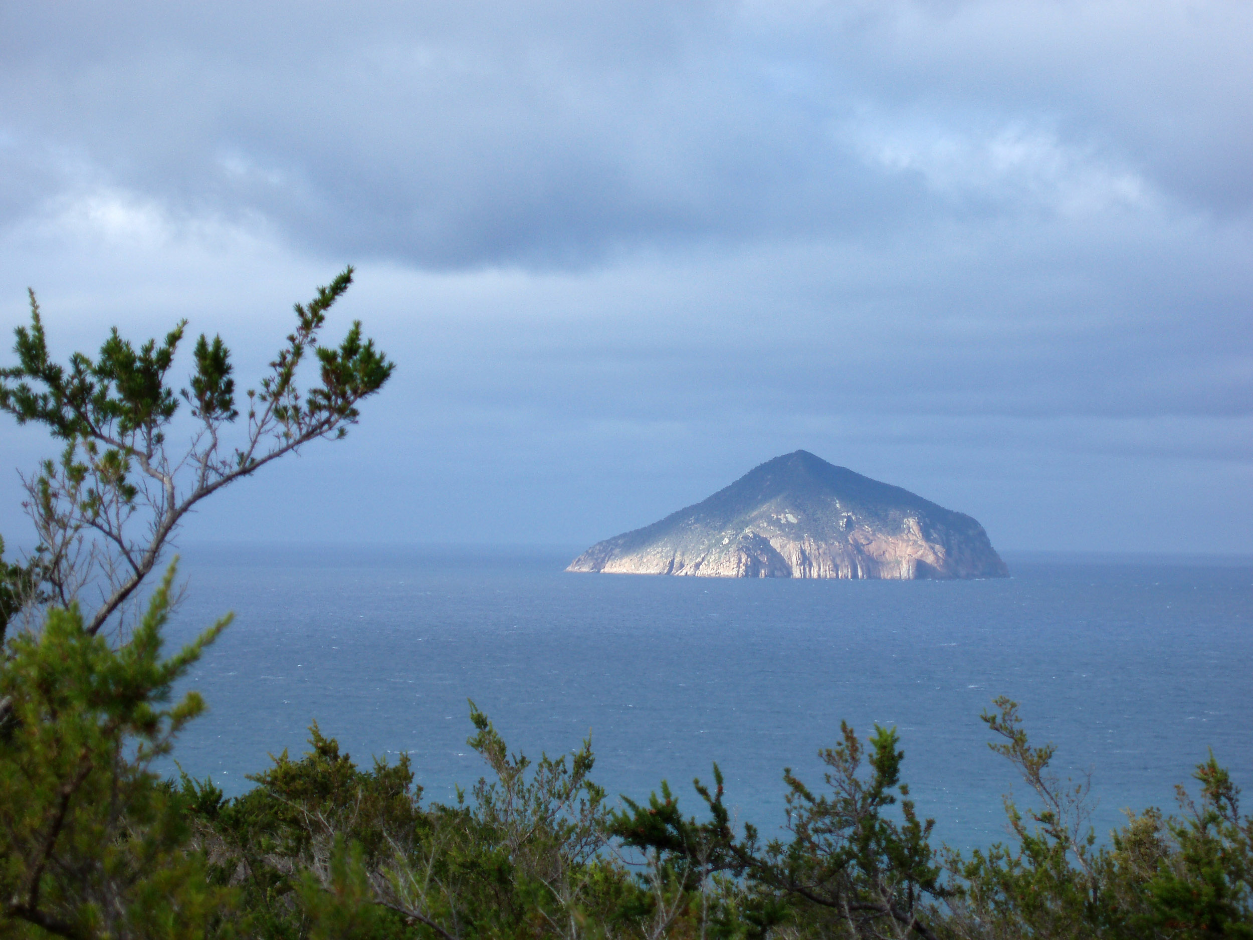 View of Rodondo Island (part of Tasmania state) from South Point, the southernmost landmass of the Australian continent